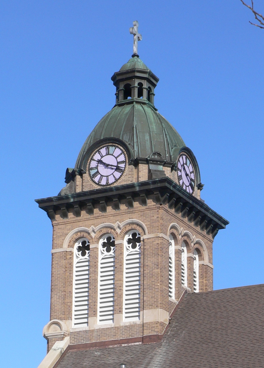 Steeple of St. Leonard's Catholic Church in Madison, Nebraska; seen from the southeast. The church was designed in Romanesque Revival style by architect Jacob M. Nachtigall, and built in 1913. With its rectory and a garage, it is listed in the National Register of Historic Places.